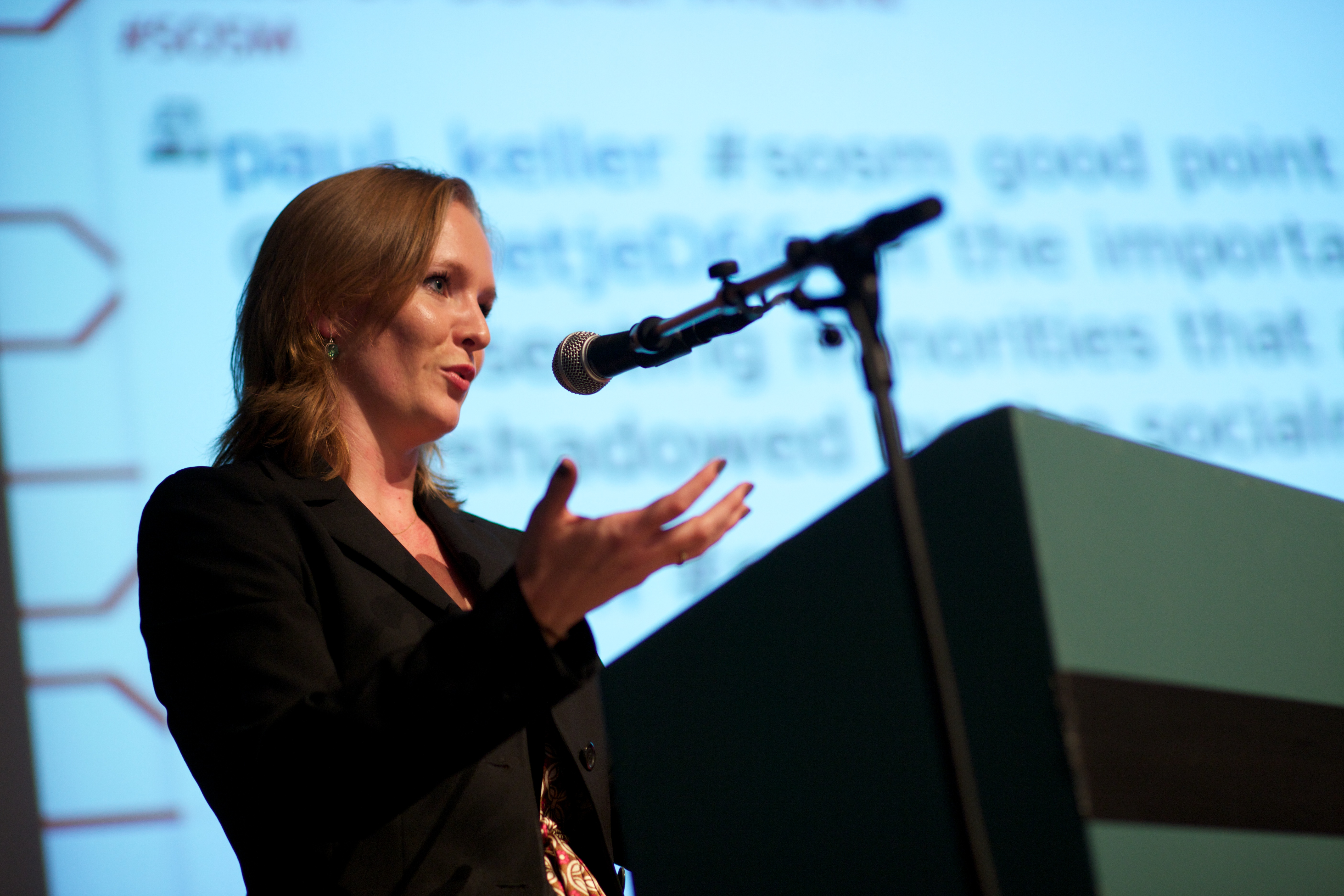 Marietje Schaake @ State of Social Media Summit